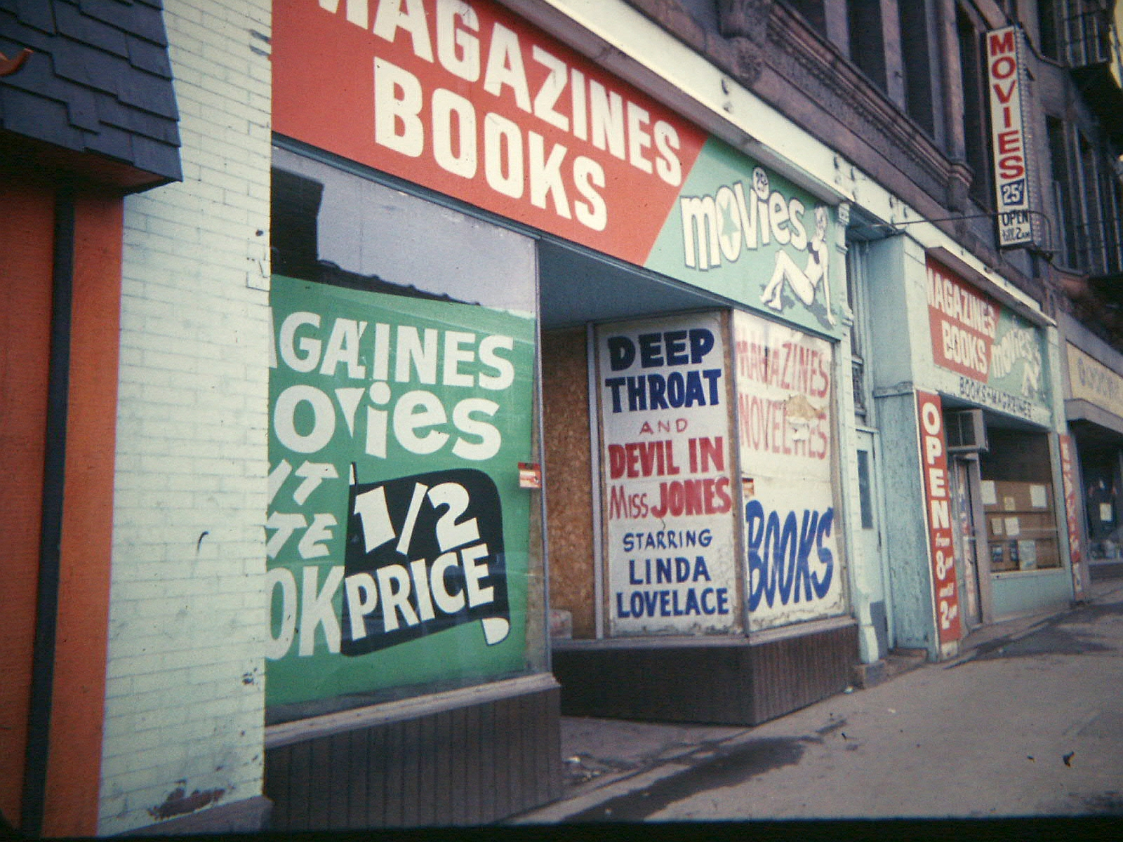 Pornographic retail on Superior Street in Duluth, Minnesota.